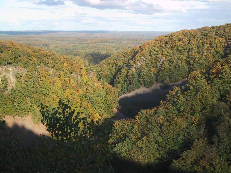 View from Kopparhatten, part of the national park Söderåsen in Skåne, Sweden